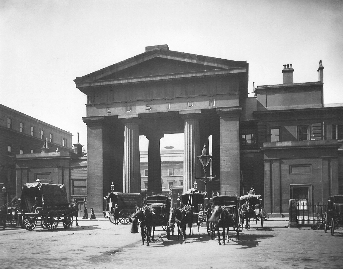 Photograph of Euston Arch.